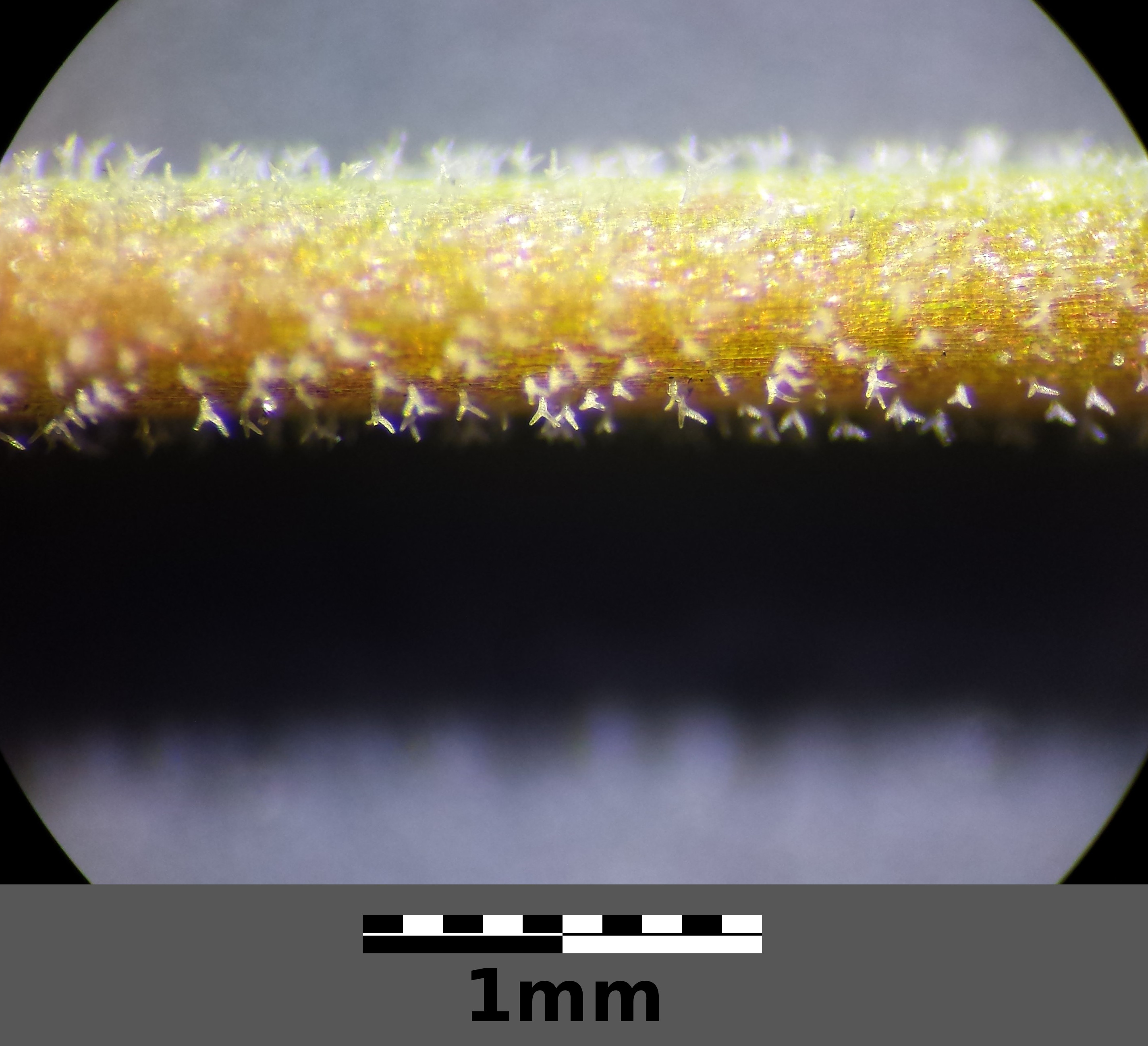 Stipe with forked hairs Taxonym: Androsace elongata ss Fischer et al. EfÖLS 2008 ISBN 978-3-85474-187-9 Location: Jungerberg, Jois, district Neusiedl am See, Burgenland, Austria - ca. 200 m a.s.l. Habitat: forest of Robinia pseudacacia